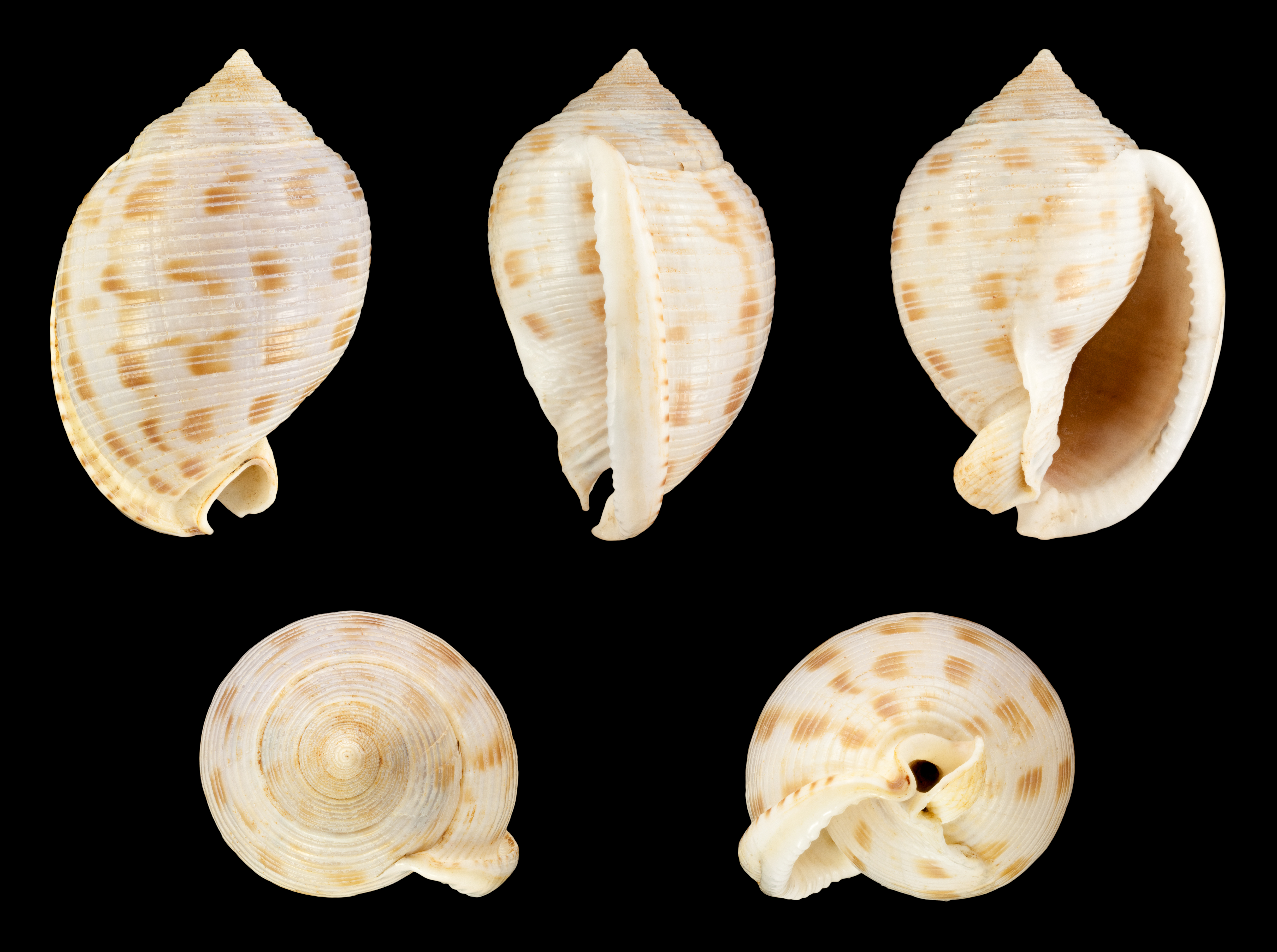 Semicassis bisulcata var. japonica (Reeve, 1848), Japanese Bonnet; Length 5.1 cm; Originating from the Philippines. Shell of own collection, therefore not geocoded.